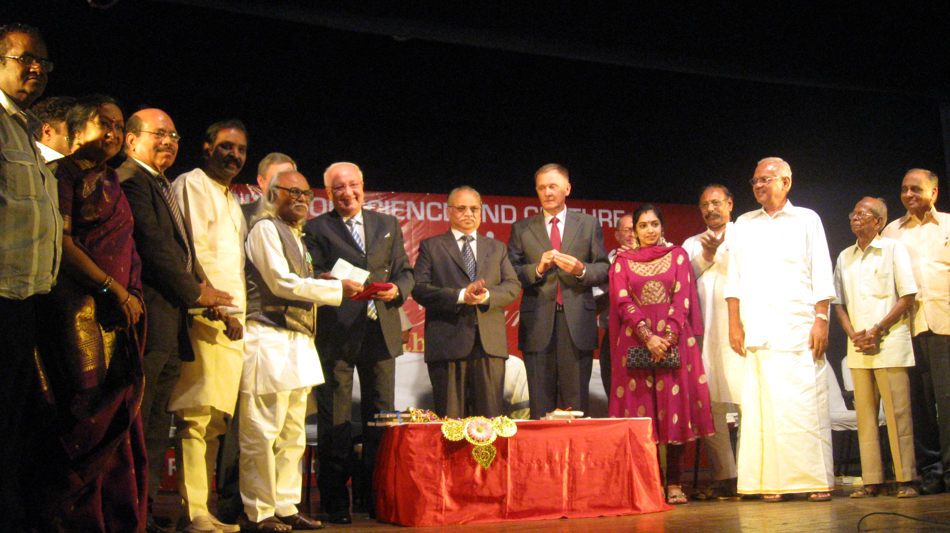 Tamil writer D. Jayakanthan receiving the "Order of Friendship" award of the Russian Federation. Also in the picture are Vairamuthu and Tamizhachi Thangapandian